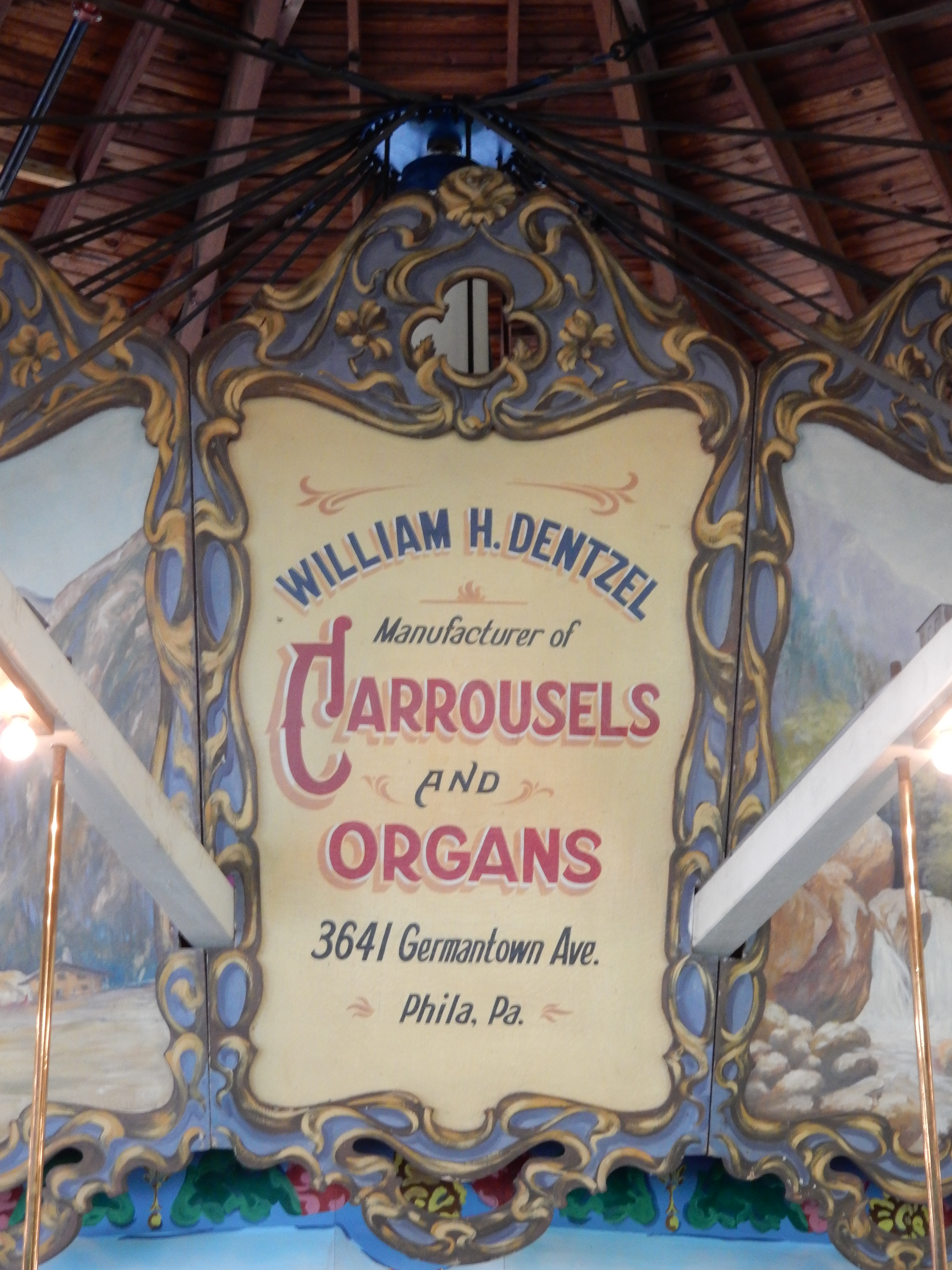 Weona Park Carousel . Interior view.